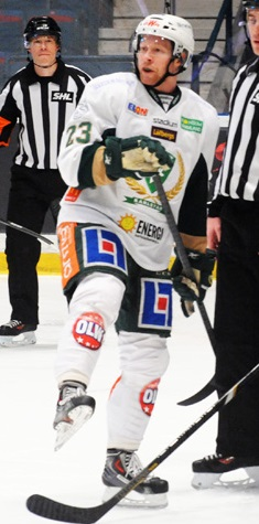 Martin Röymark during a SHL game.